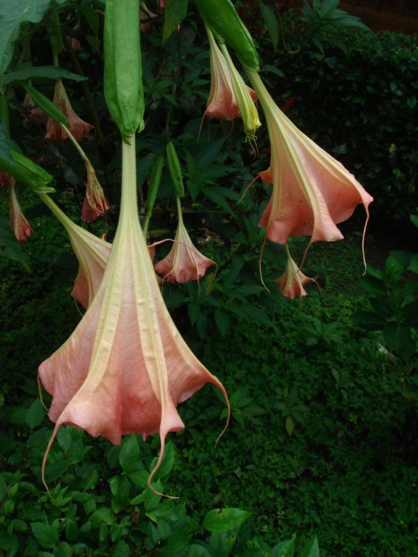 Brugmansia insignis flower. Sacha Lodge, Napo River.